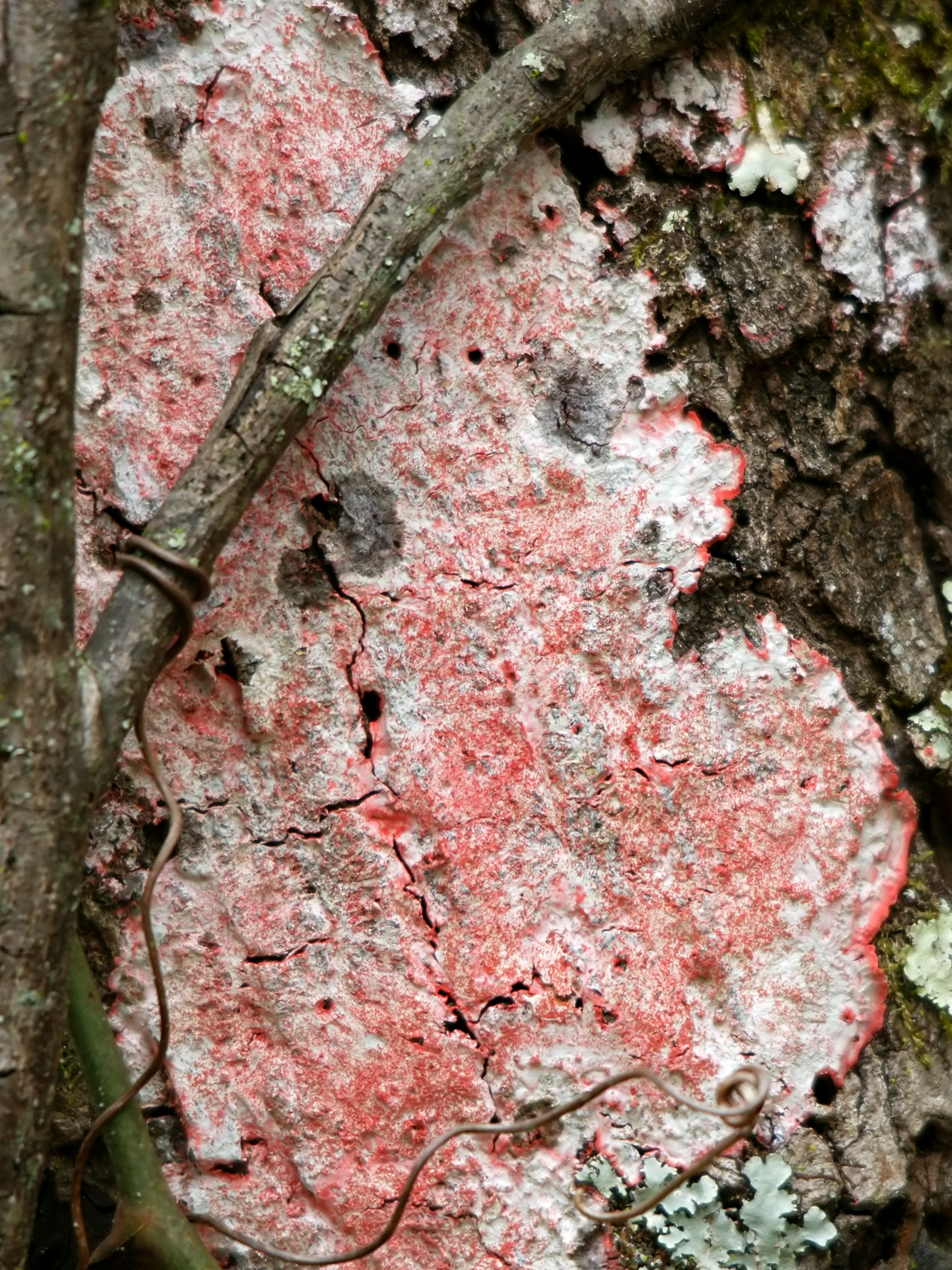 Christmas Wreath Lichen at Lake Louisa State Park in Lake County, Florida, U.S.A.